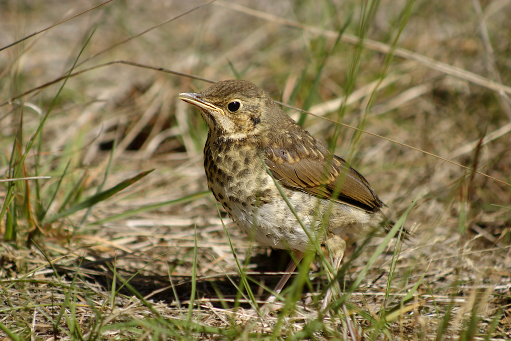 A juvenile Song Thrush near Lake Te Anau, New Zealand.